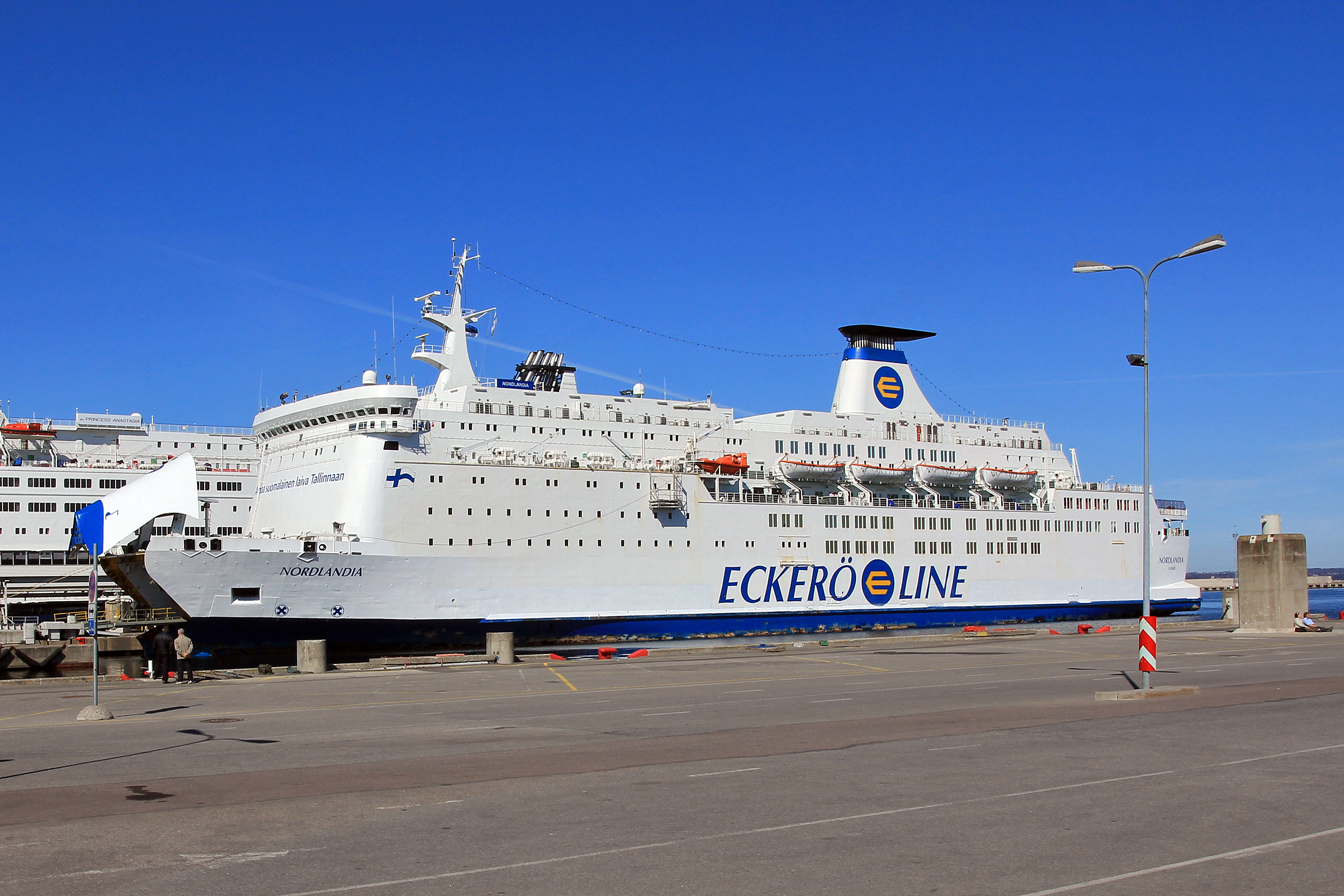 MS Nordlandia in the port of Tallinn. MS SPL Princess Anastasia (1986) in background.